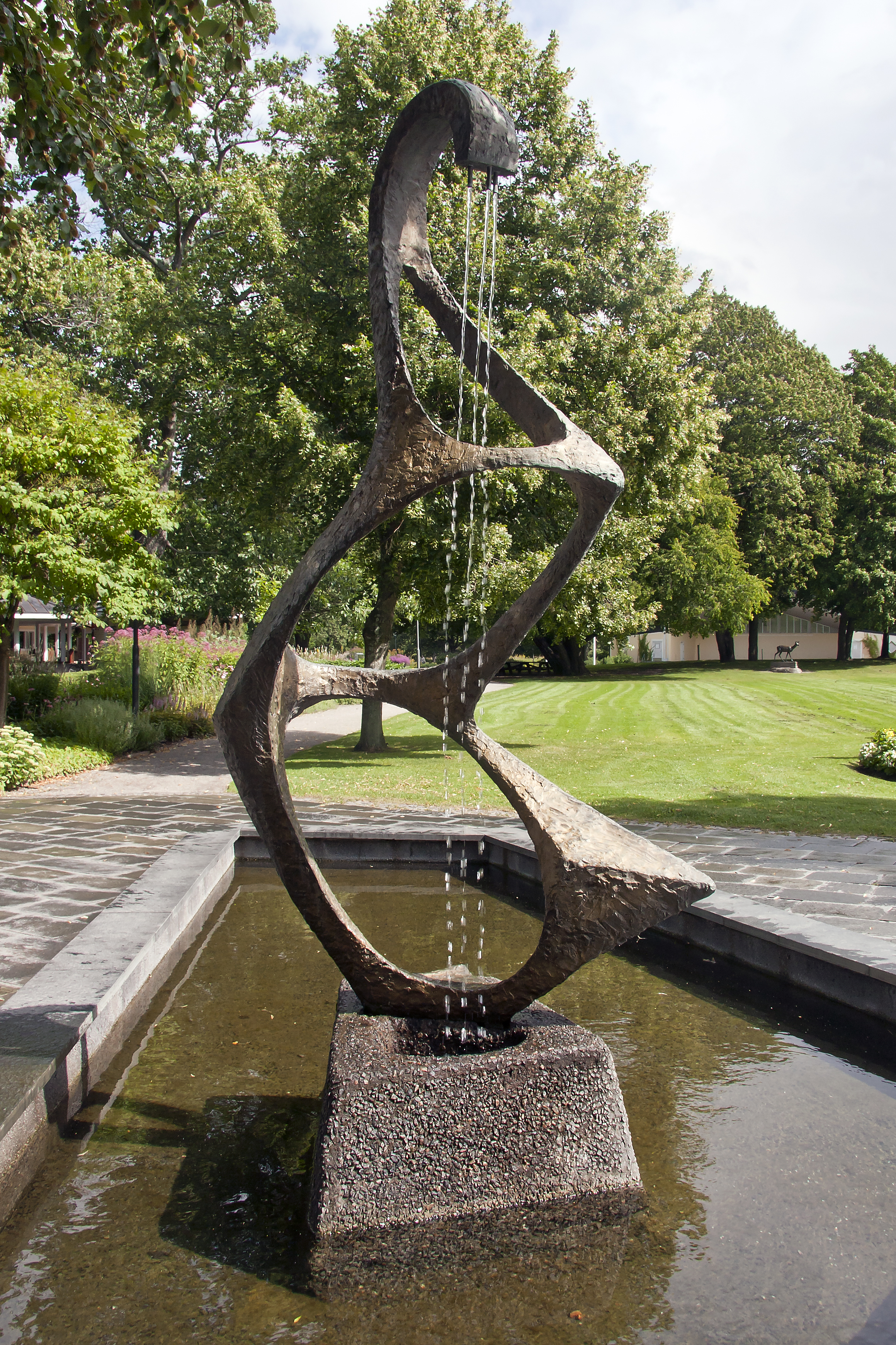 Public artwork "Resonans" in Örebro, Sweden, by Arne Jones.